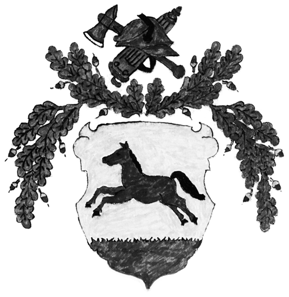 old Seal of Zobbenitz, Germany.